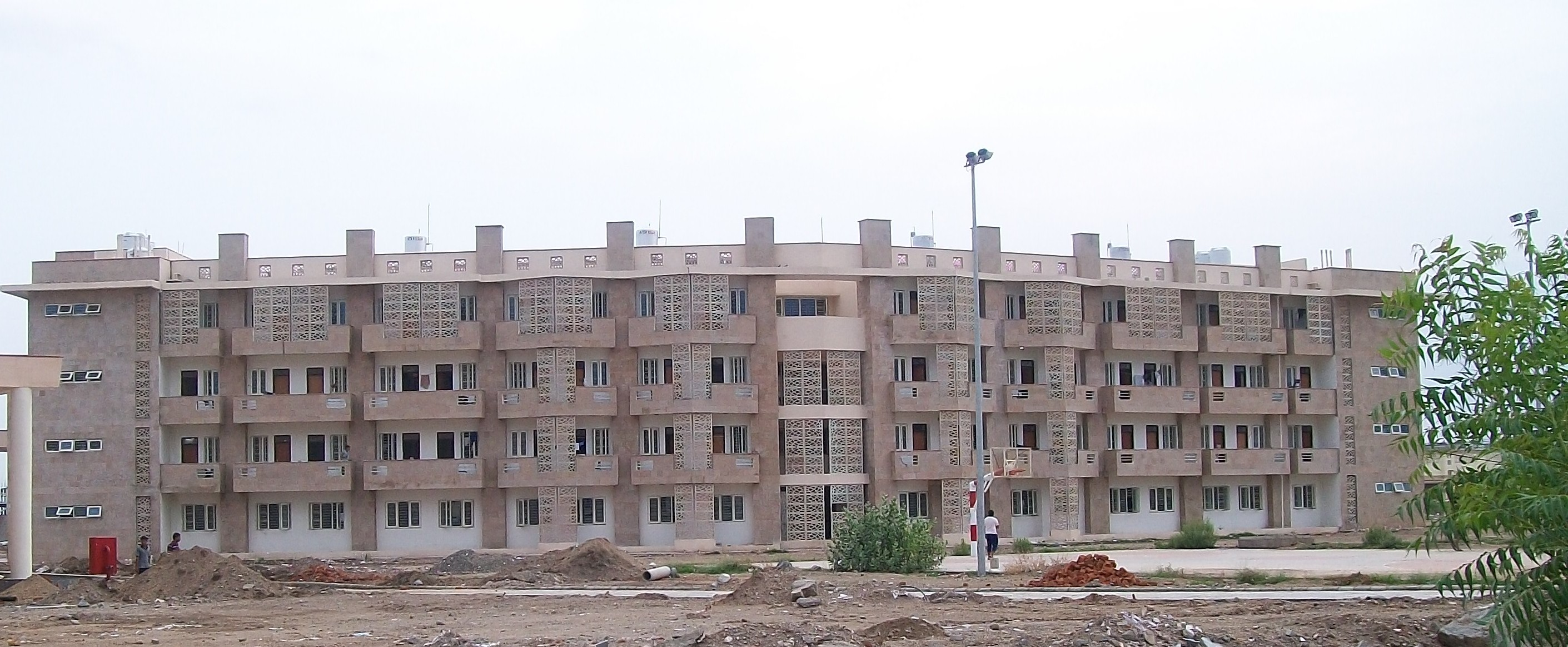 Hostel building